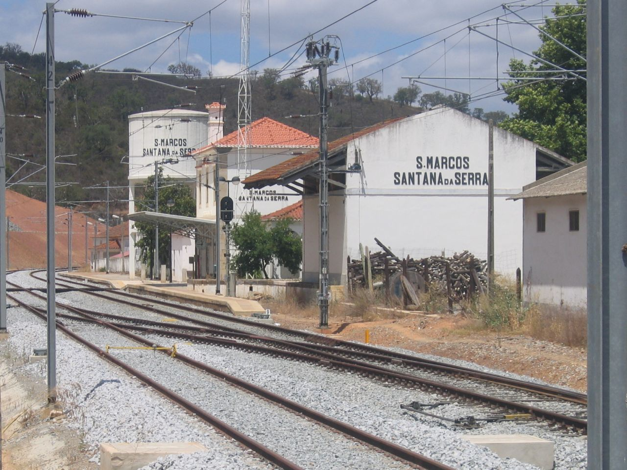 Train Station of S.Marcos